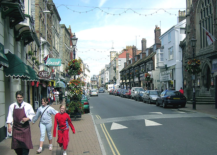 Ilfracombe High street